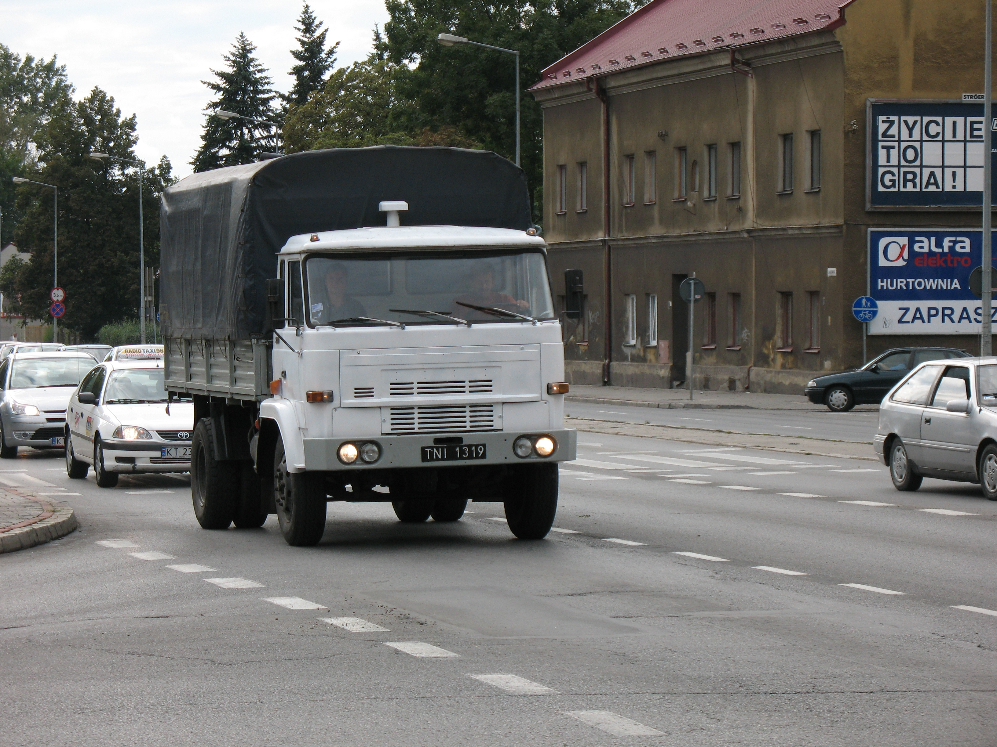 White star 200 truck in Tarnów, Poland.